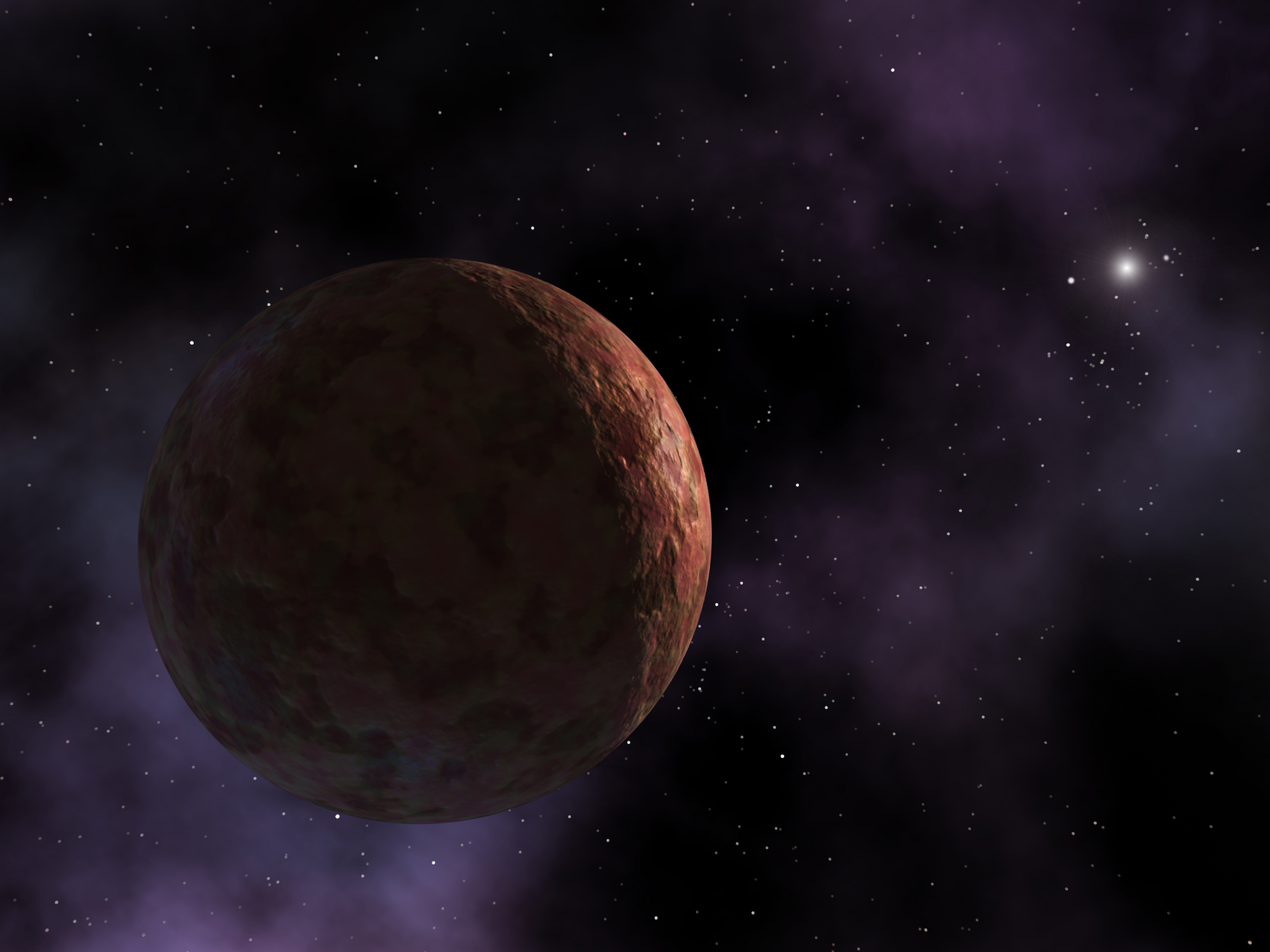 In this artist's visualization, the newly discovered planet-like object, dubbed "Sedna," is shown where it resides at the outer edges of the known solar system. The object is so far away that the Sun appears as an extremely bright star instead of the large, warm disc observed from Earth. All that is known about Sedna's appearance is that it has a reddish hue, almost as red and reflective as the planet Mars. (Digitally REMOVED: In the distance is a hypothetical small moon, which scientists believe may be orbiting this distant body.)